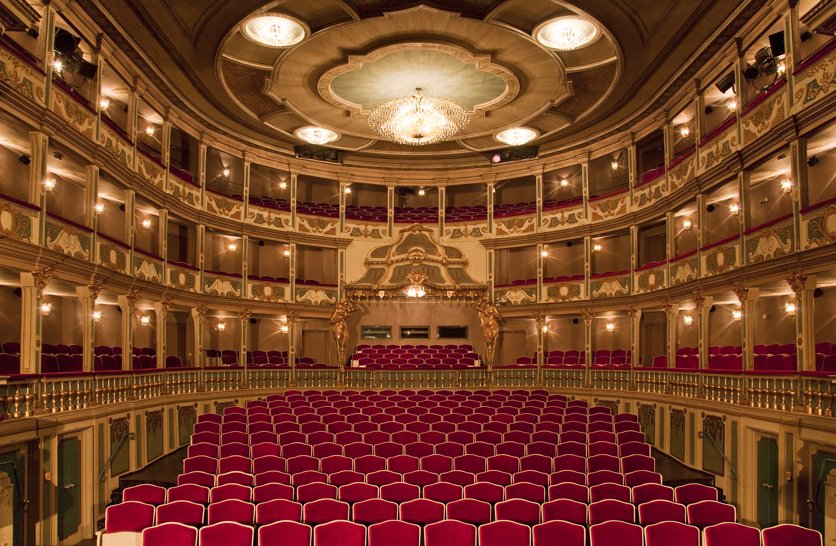 Der Saal des Markgrafentheaters